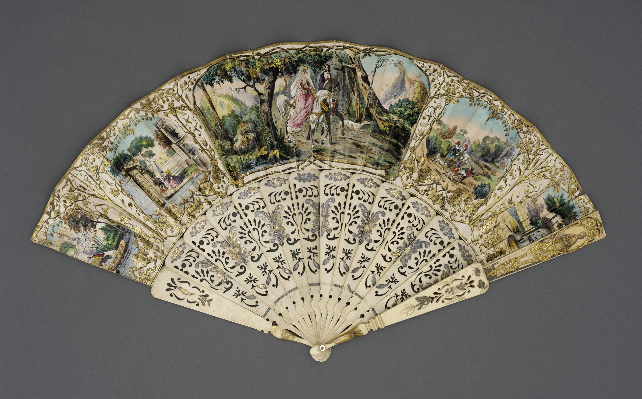 France or Spain, 1845-1850 Costumes; Accessories Paper leaf, bone sticks, mother-of-pearl button, brass metallic rivet Mrs. Alice F. Schott Bequest (M.67.8.115) Costume and Textiles